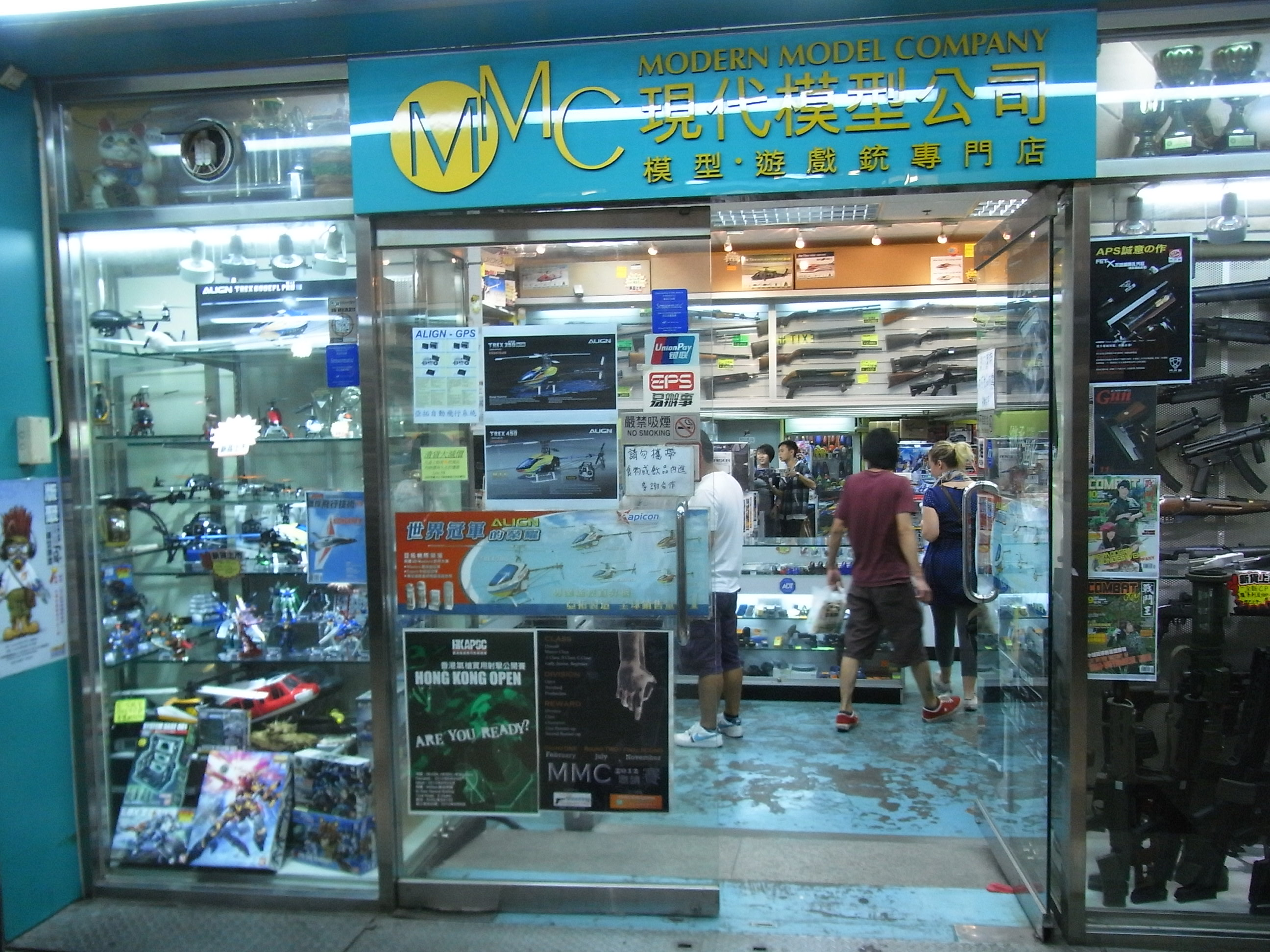 Night in Nathan Road, Mongkok, Hong Kong